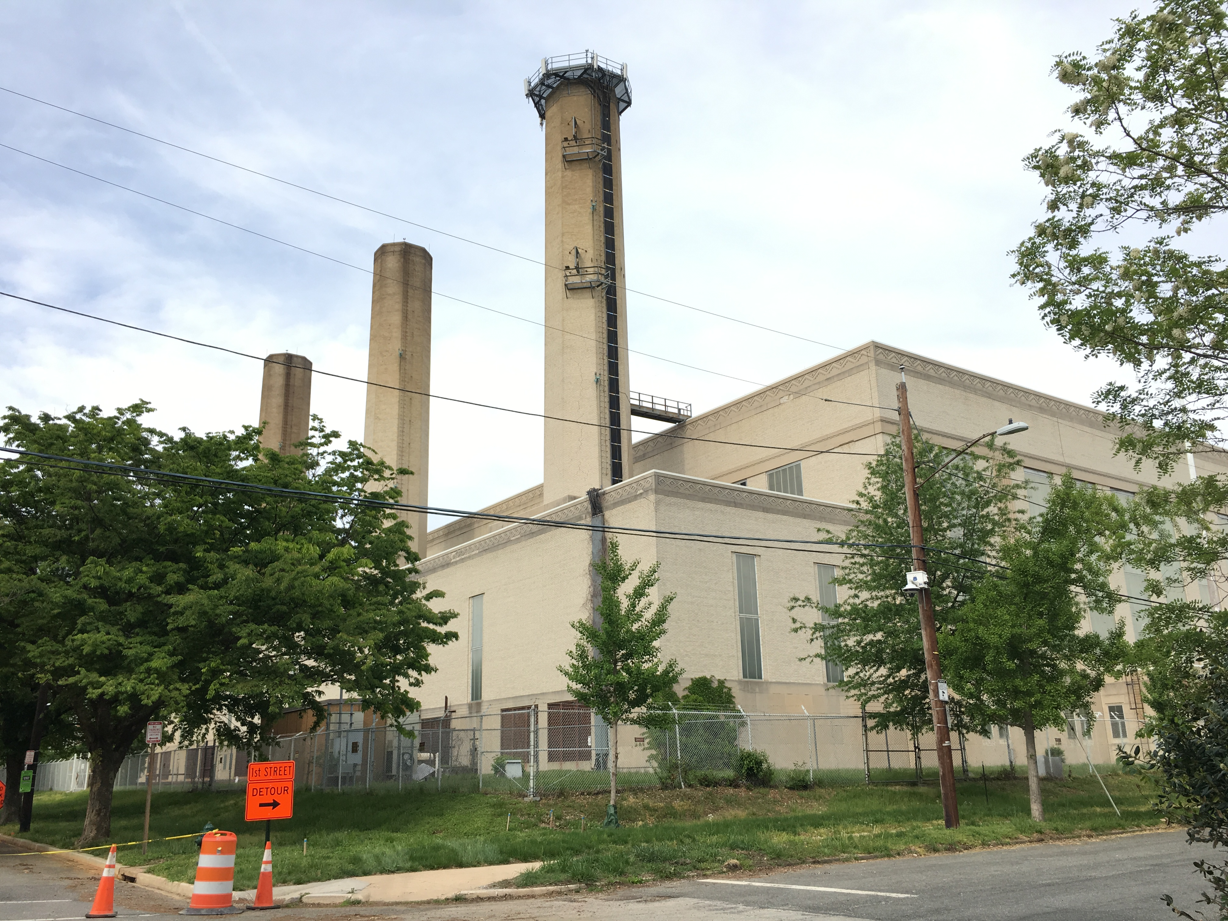 View of the defunct PEPCO power plant in Buzzard Point, Washington, DC